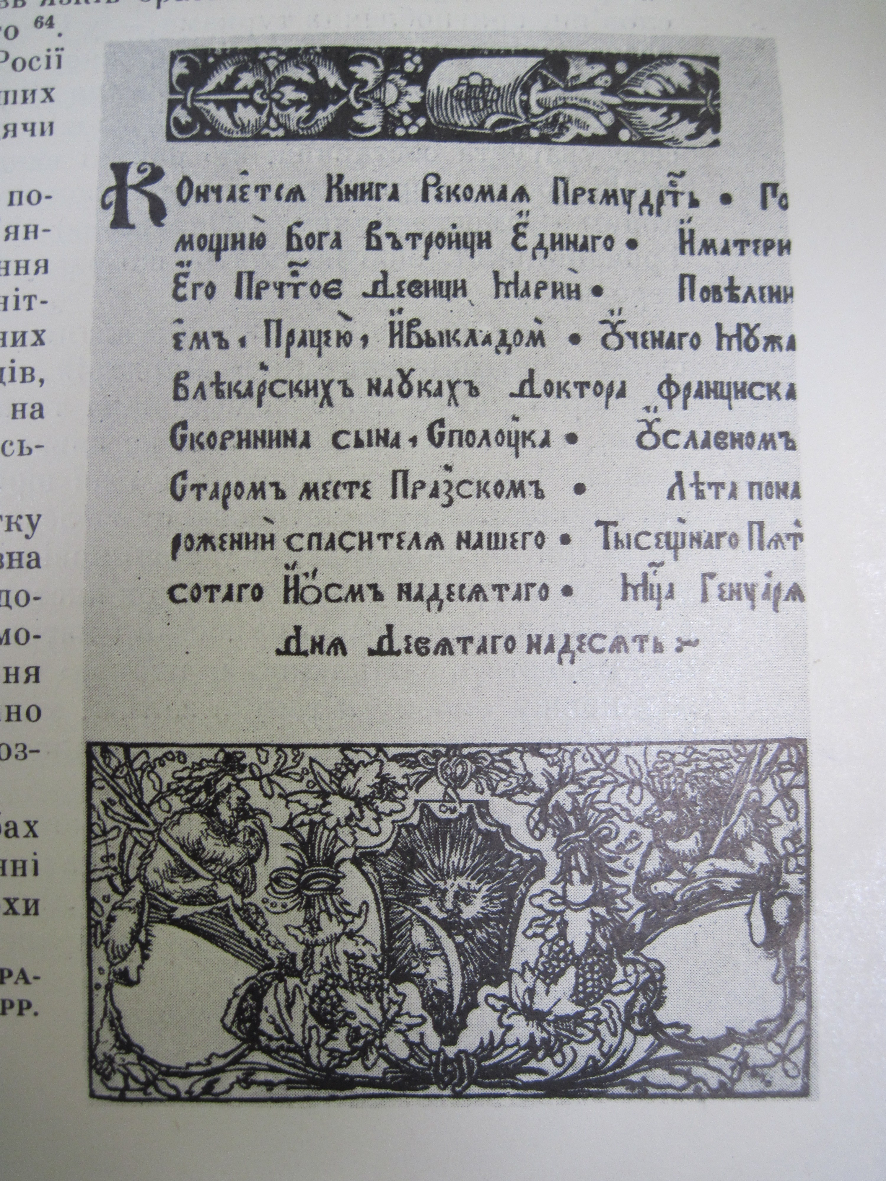 Holy Bible in Church Slavonic by Belarusian printer Francysk Skaryna (~1490- ~1551) Біблія Скорини